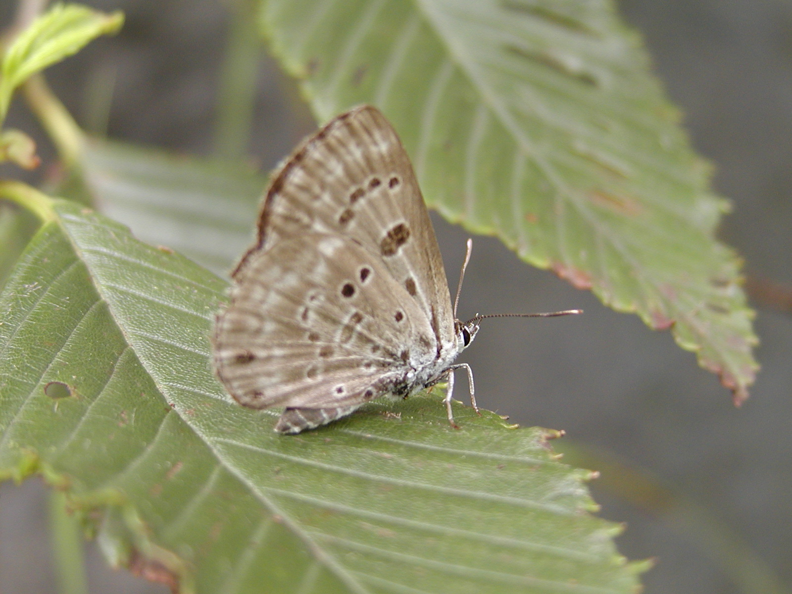 Niphanda fusca(female)…Shizuoka.pref JPN July 2004